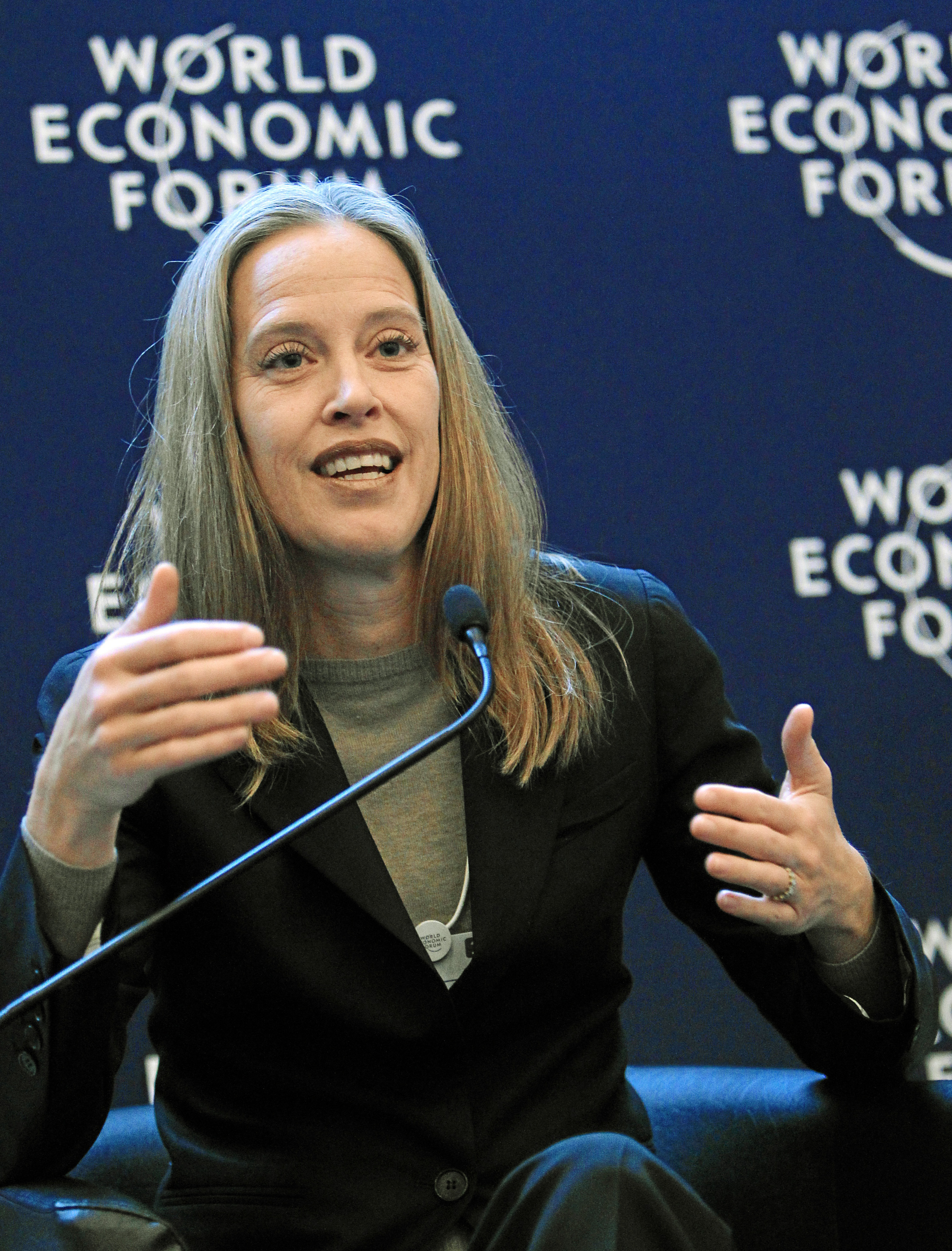 DAVOS/SWITZERLAND, 26JAN12 - Wendy Kopp, Chief Executive Officer and Co-Founder, Teach For All, USA; Social Entrepreneur; Global Agenda Council on Education Systems speaks during the session 'Forging Ahead: The United States in 2012' at the Annual Meeting 2012 of the World Economic Forum at the congress centre in Davos, Switzerland, January 26, 2012. Copyright by World Economic Forum by Sebastian Derungs